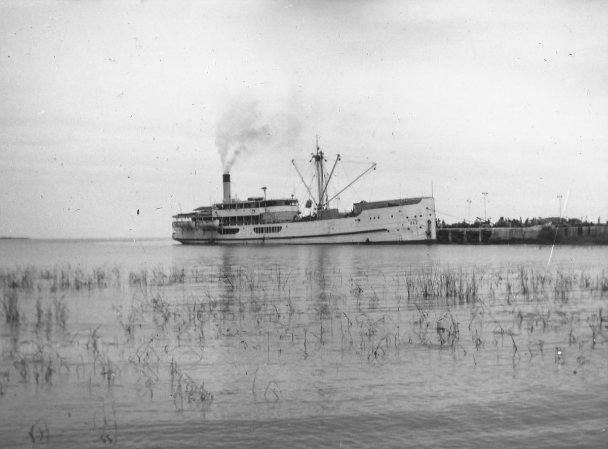 SS Usoga